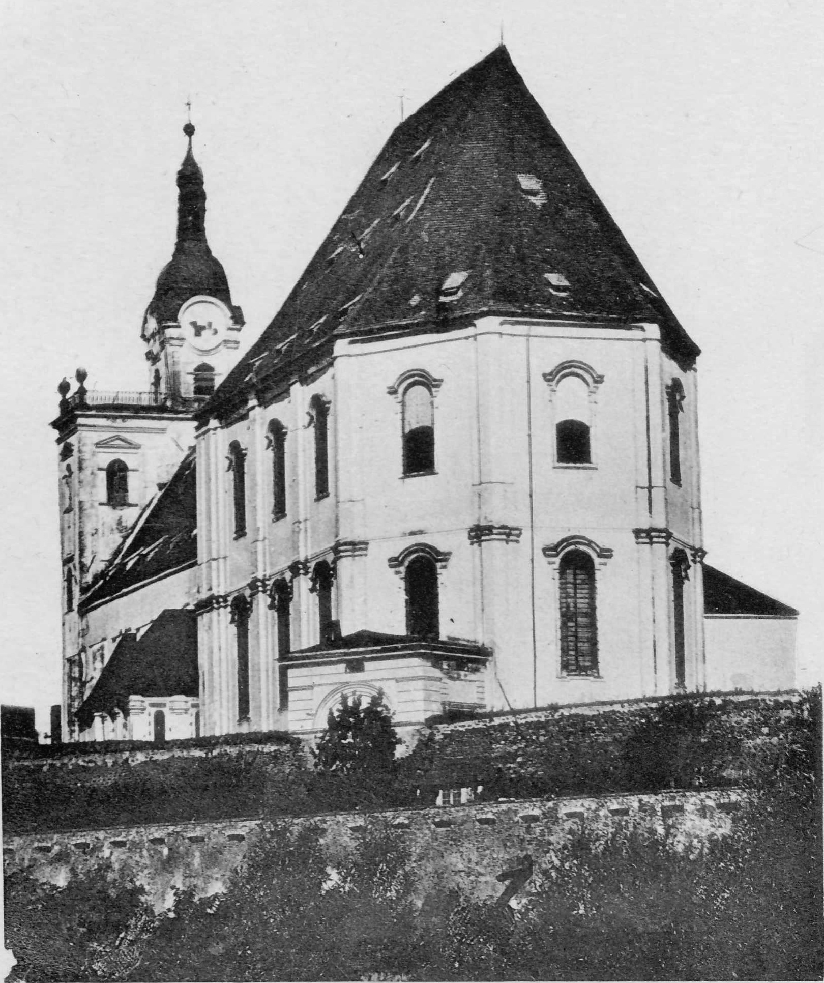 Saint Wenceslas Cathedral, Olomouc, 1803–1883.